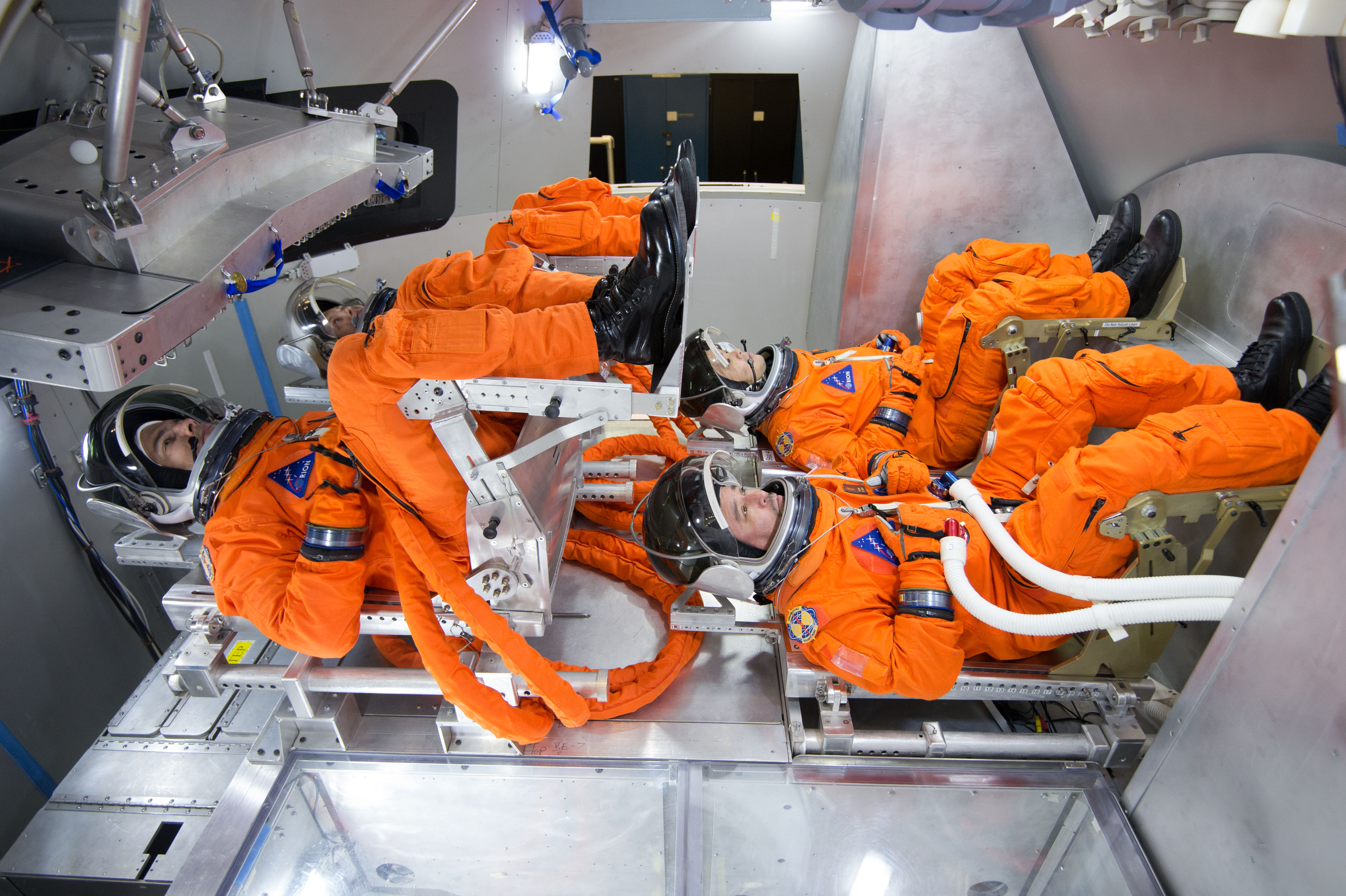 Spacesuit engineers demonstrate how four crew members would be arranged for launch inside the Orion spacecraft, using a mockup of the vehicle at Johnson Space Center.